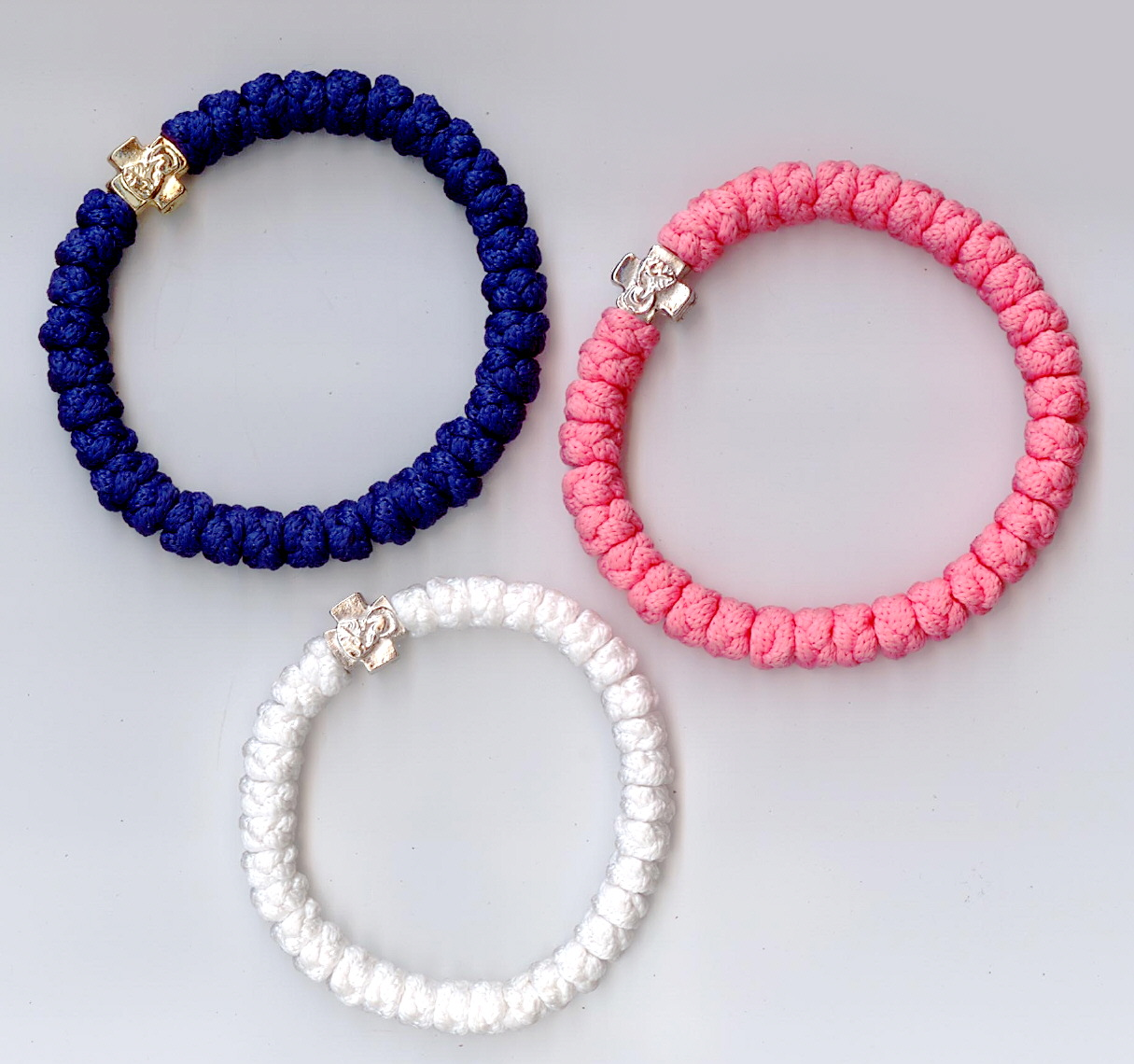 Serbian orthodox prayer ropes (33 knots)